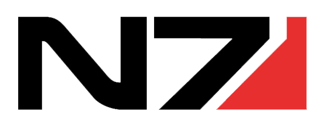 N7 sign, cropped in Photoshop.